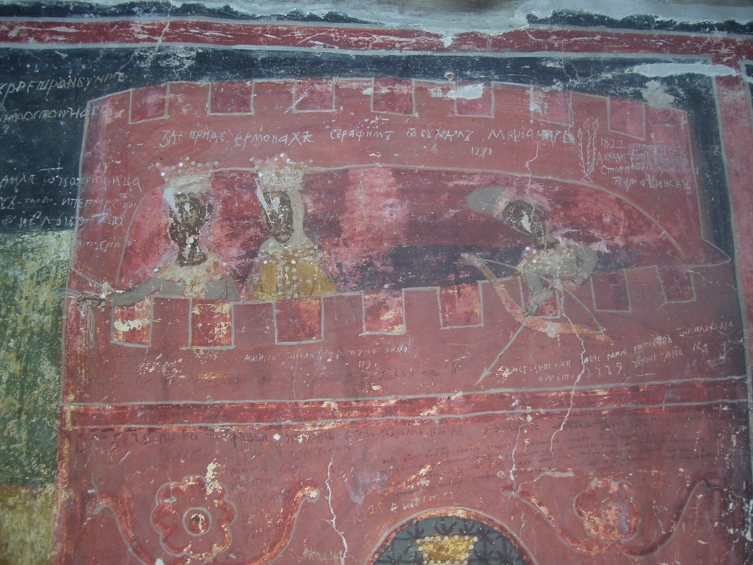 Temska monastery.